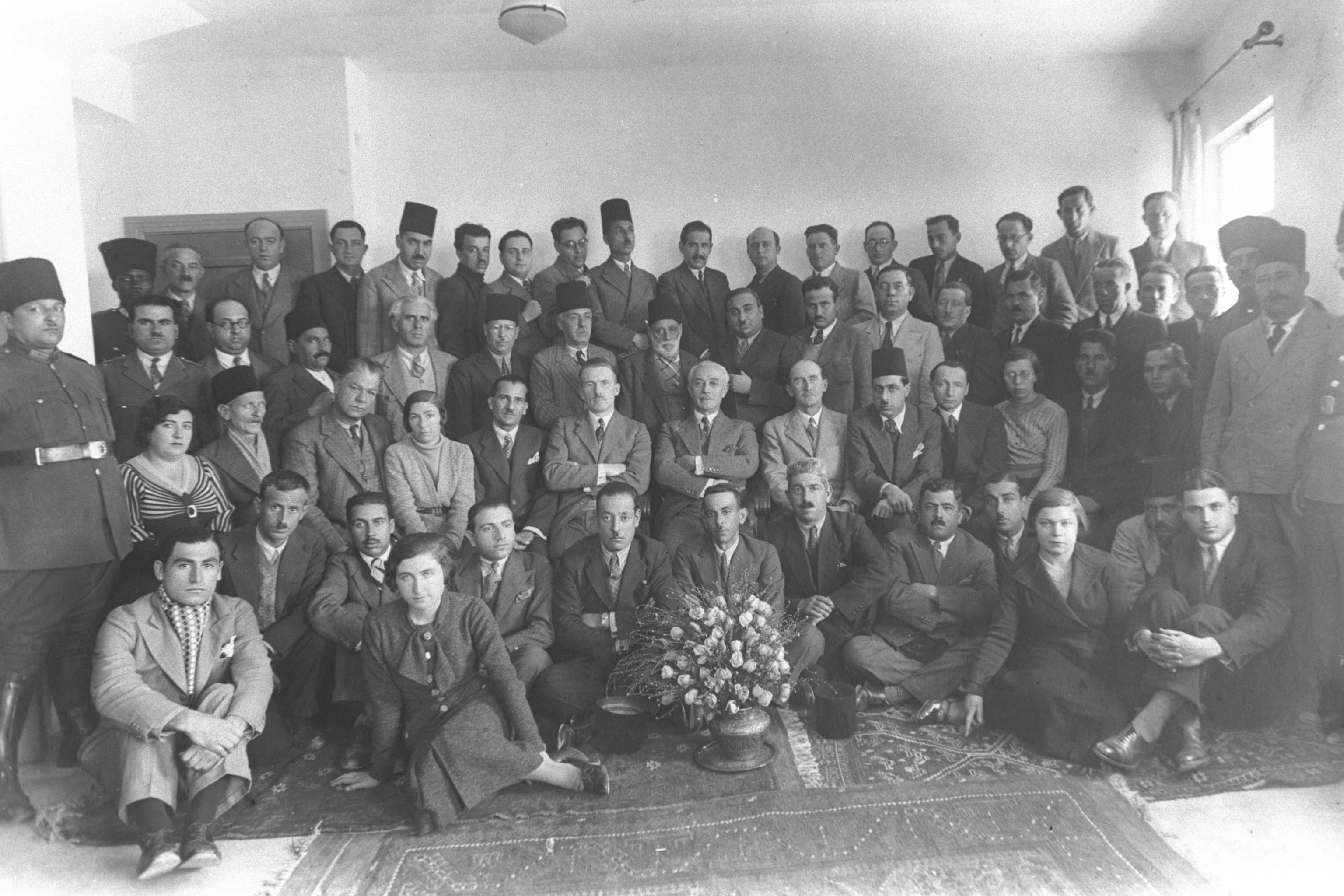 RARE PHOTO OF JEWISH, ARAB AND BRITISH STAFF OF THE JERUSALEM MUNICIPALITY POSING WITH MAYOR RAJIB NASHASHIBI (2ND ROW, CENTER), C. 1934. צילום נדיר של סגל עובדי עיריית ירושלים בראשות ראע'ב נשאשיבי (במרכז, שורה ב'), בין העובדים, יהודים, ערבים ואנגלים. הצילום בוצע בתאריך משוער בשנת 1934.